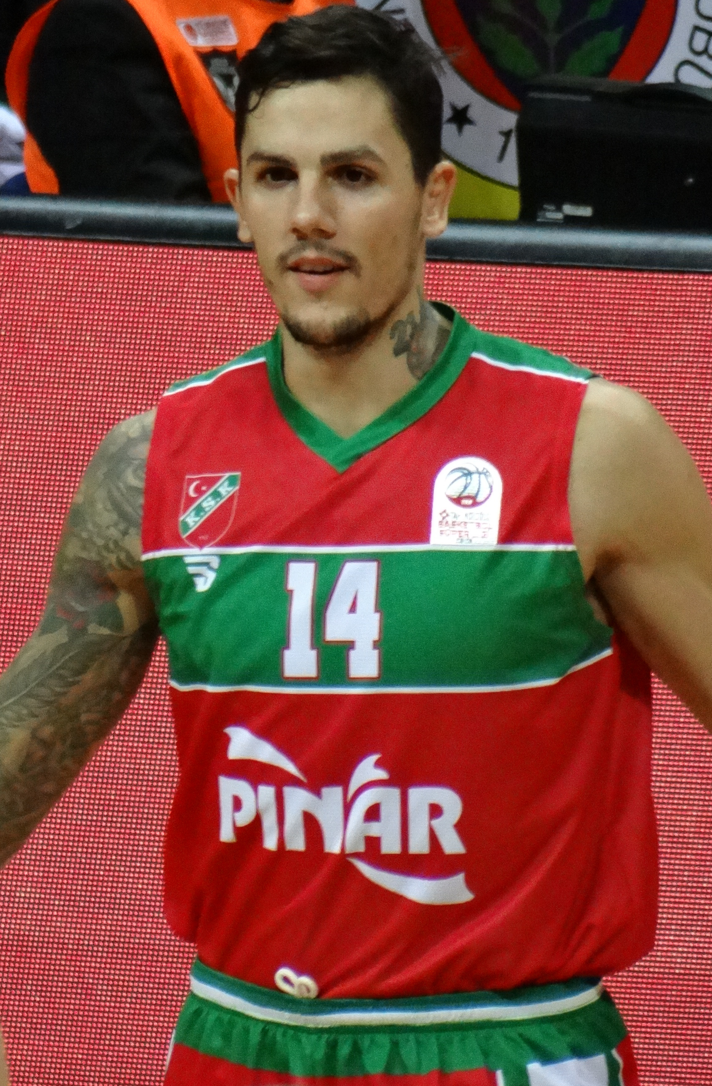 İlkan Karaman 14 Pınar Karşıyaka TSL 20181204